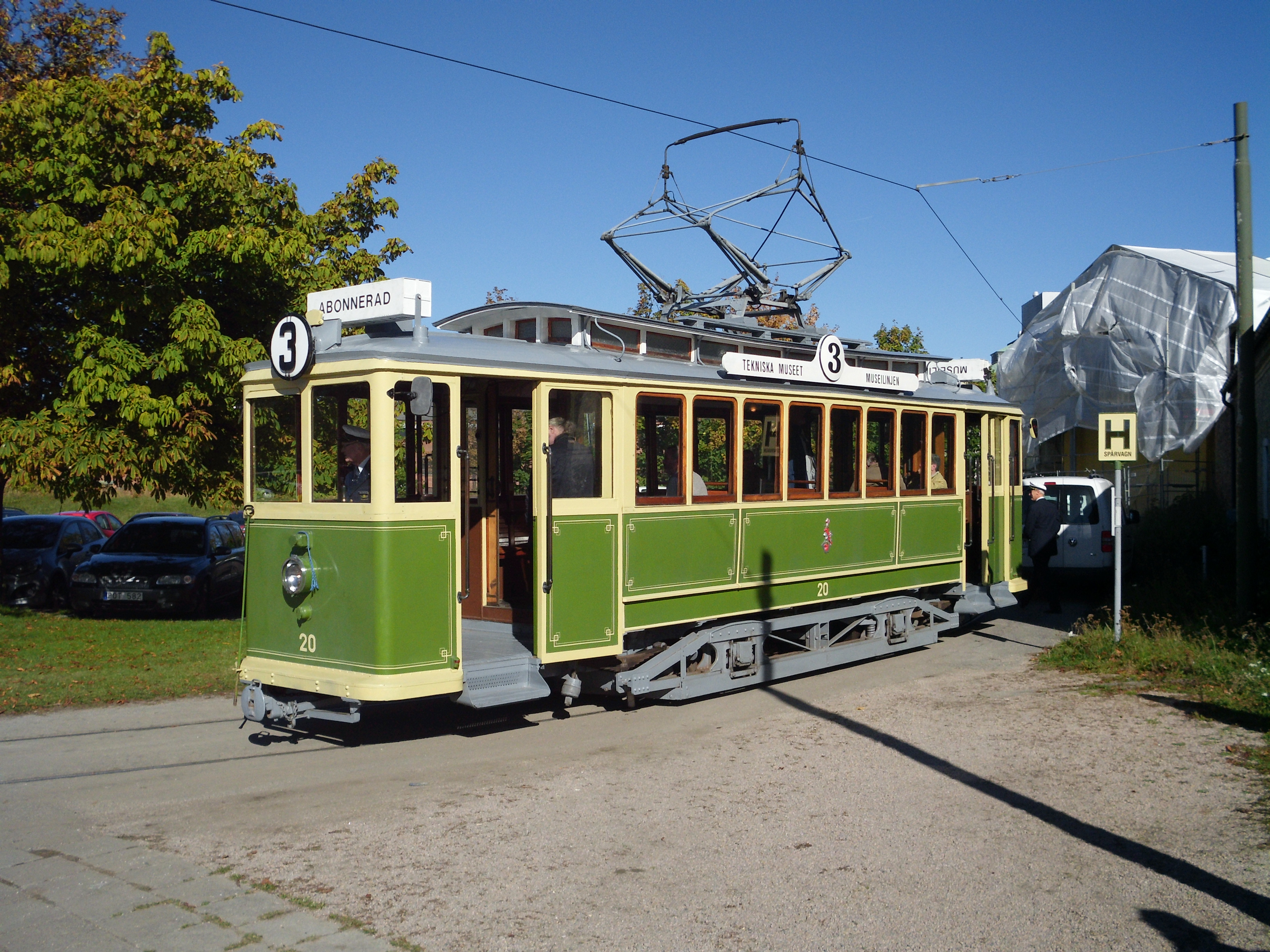 Historic streetcar next to a citadel in Malmö, Sweden.